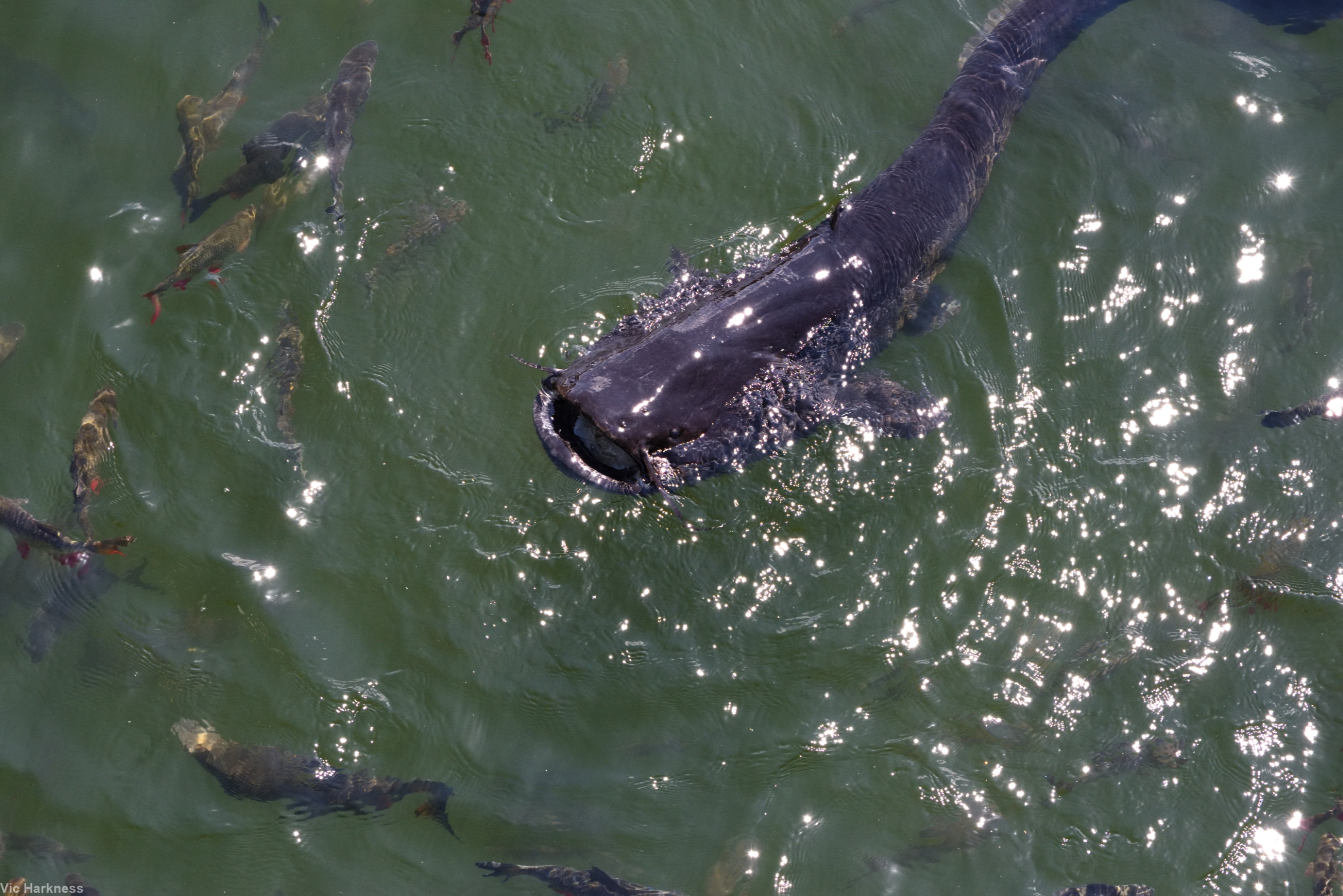 Massive catfish in the Chernobyl Nuclear Power Plant cooling pond.